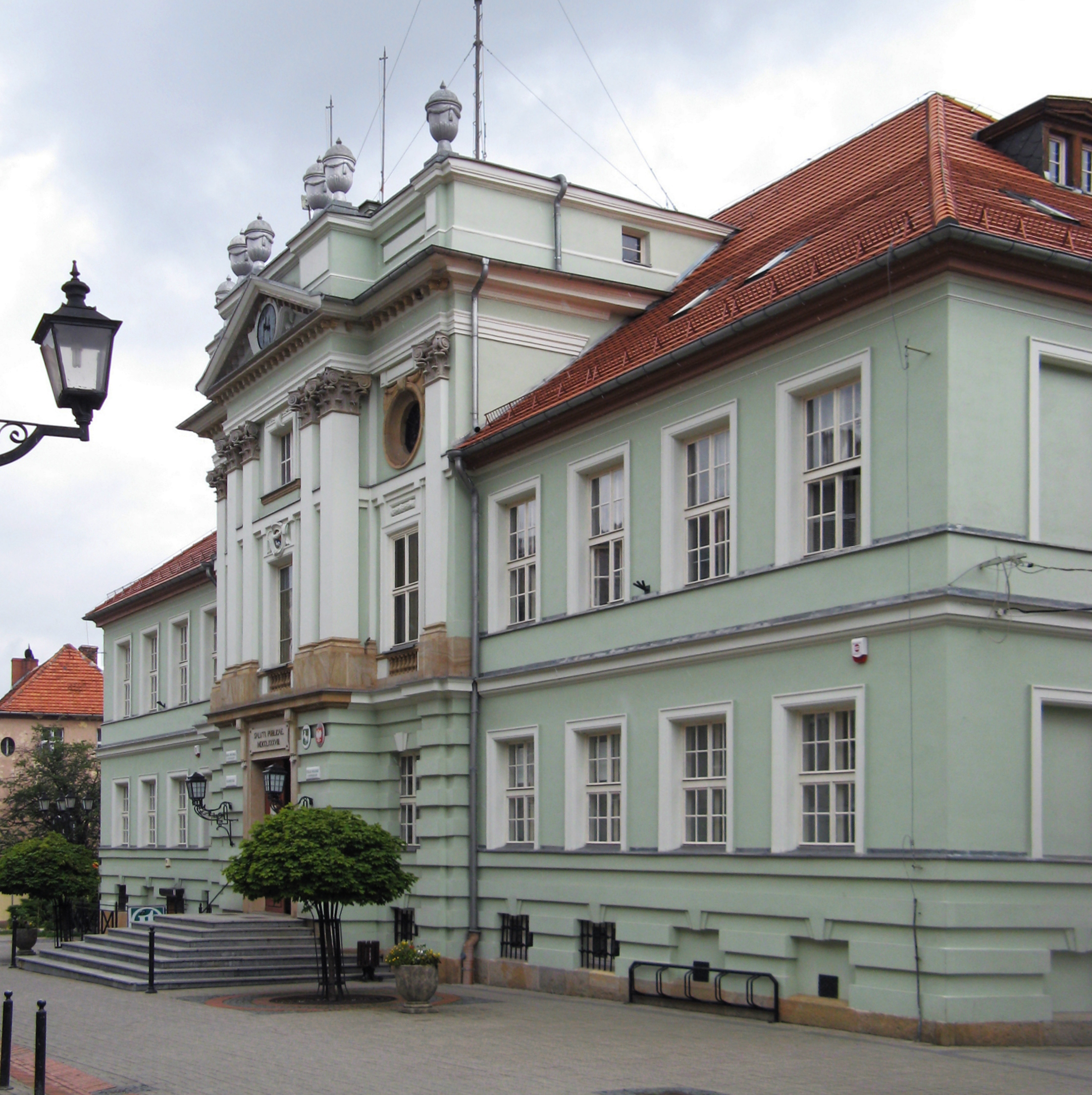 Kowary - City Hall (viewed from SE direction)